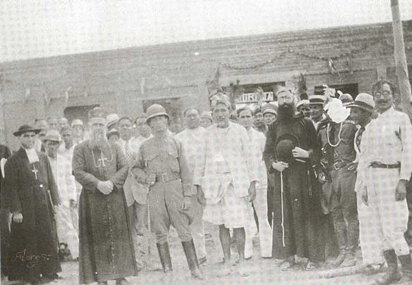 Foundation of the town of Uribia, La Guajira (Colombia) in 1935